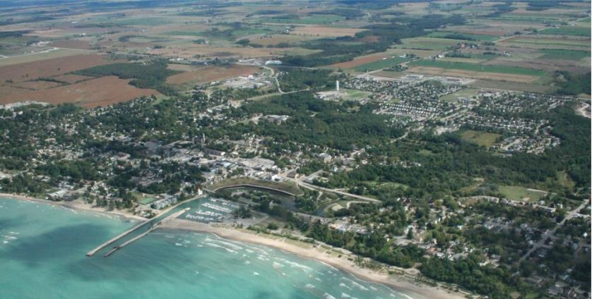 Arial View of the former town of Kincardine